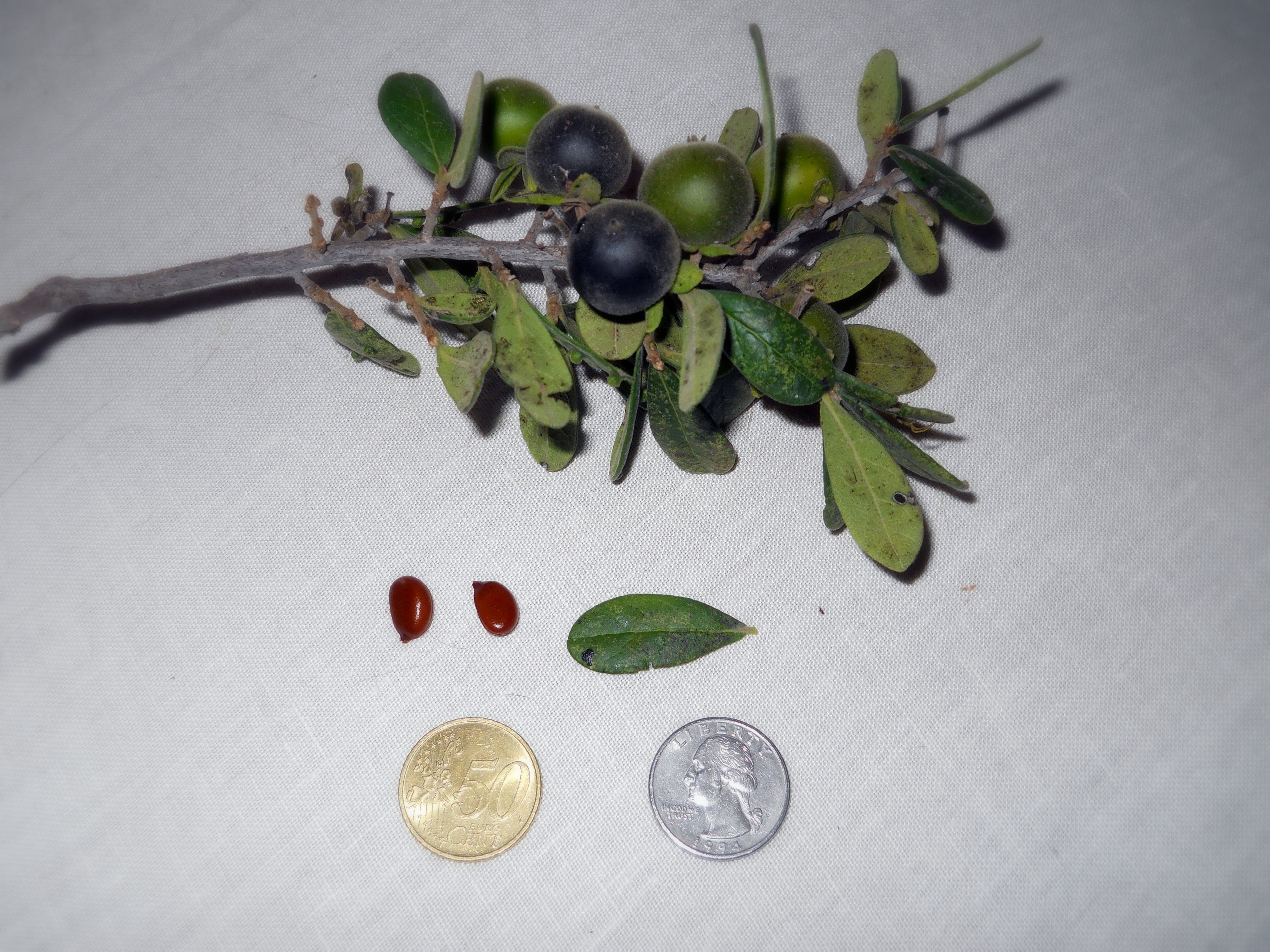 Detail of the stem, leaves, ripe and unripe fruit, and seeds of the Texas Persimmon with a €0.50 and a $0.25 coin for reference.